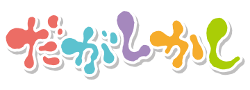 Dagashi Kashi logo